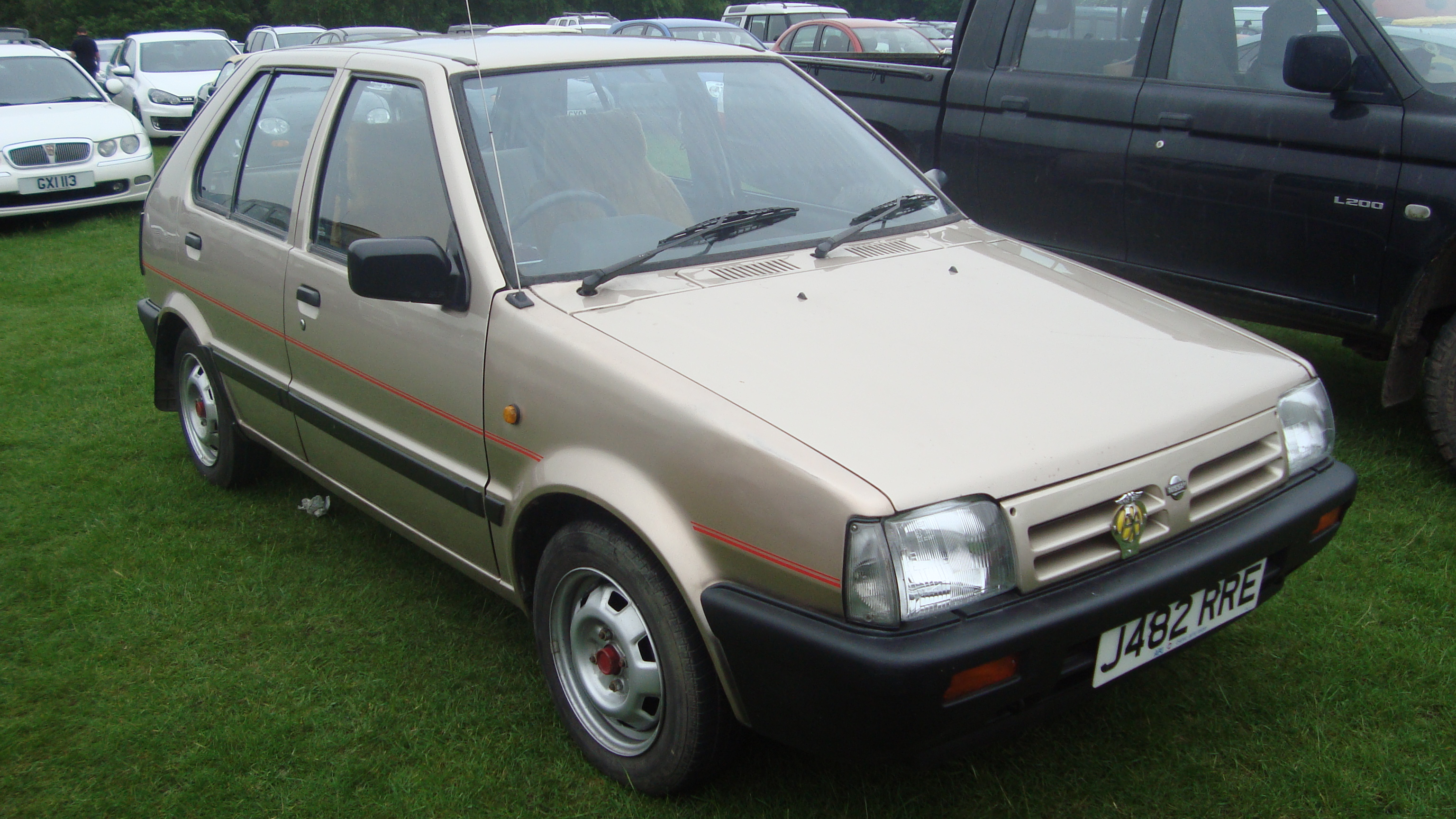 1992 Nissan Micra 1.2 GS